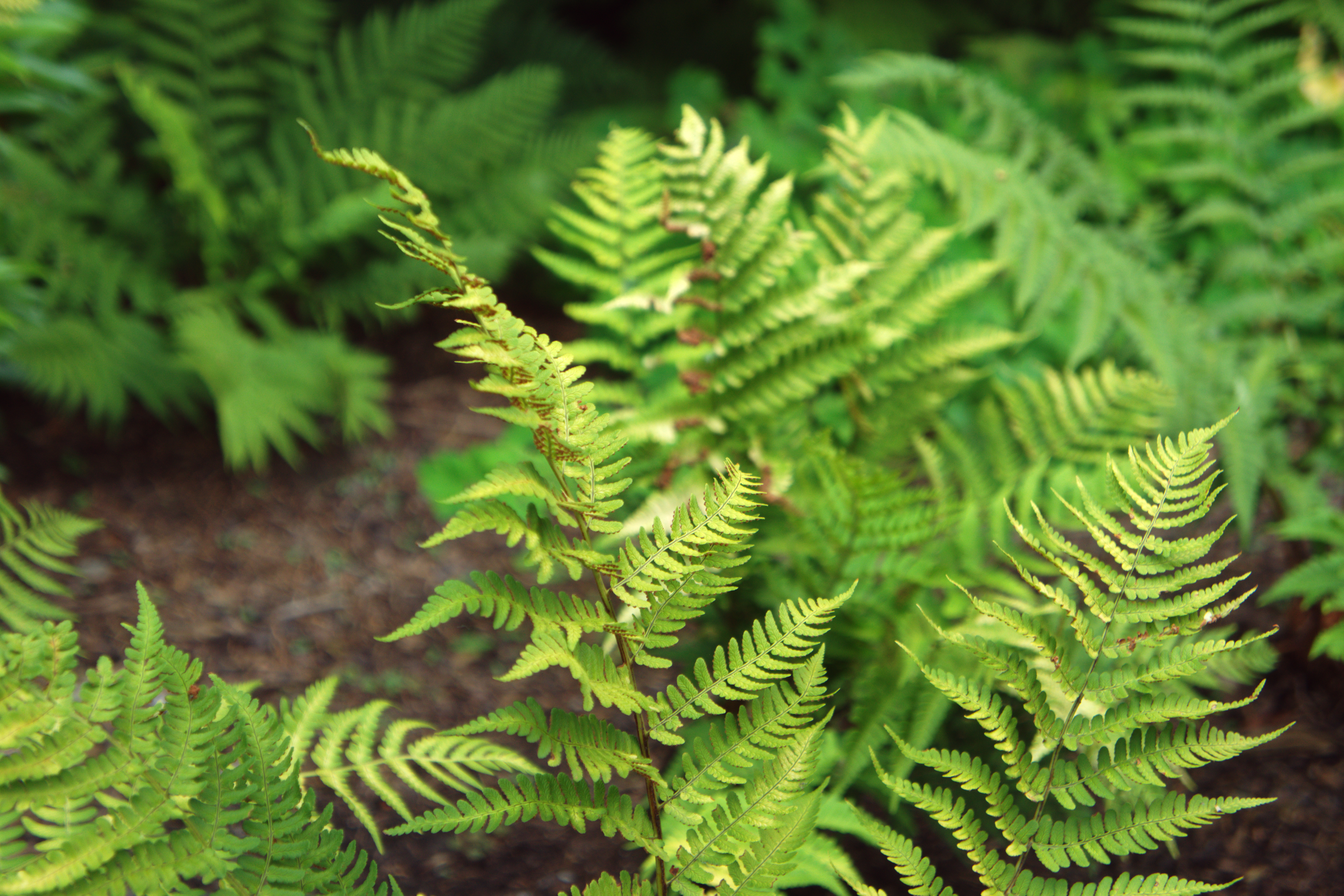 Taken at the New York Botanical Garden.